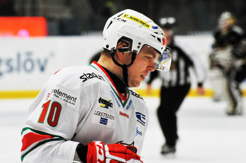 Ice hockey player Per-Åge Skrøder.